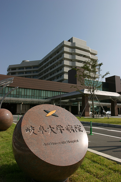 University hospital of Gifu University, Japan